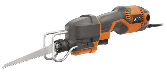 AEG mini reciprocating saw